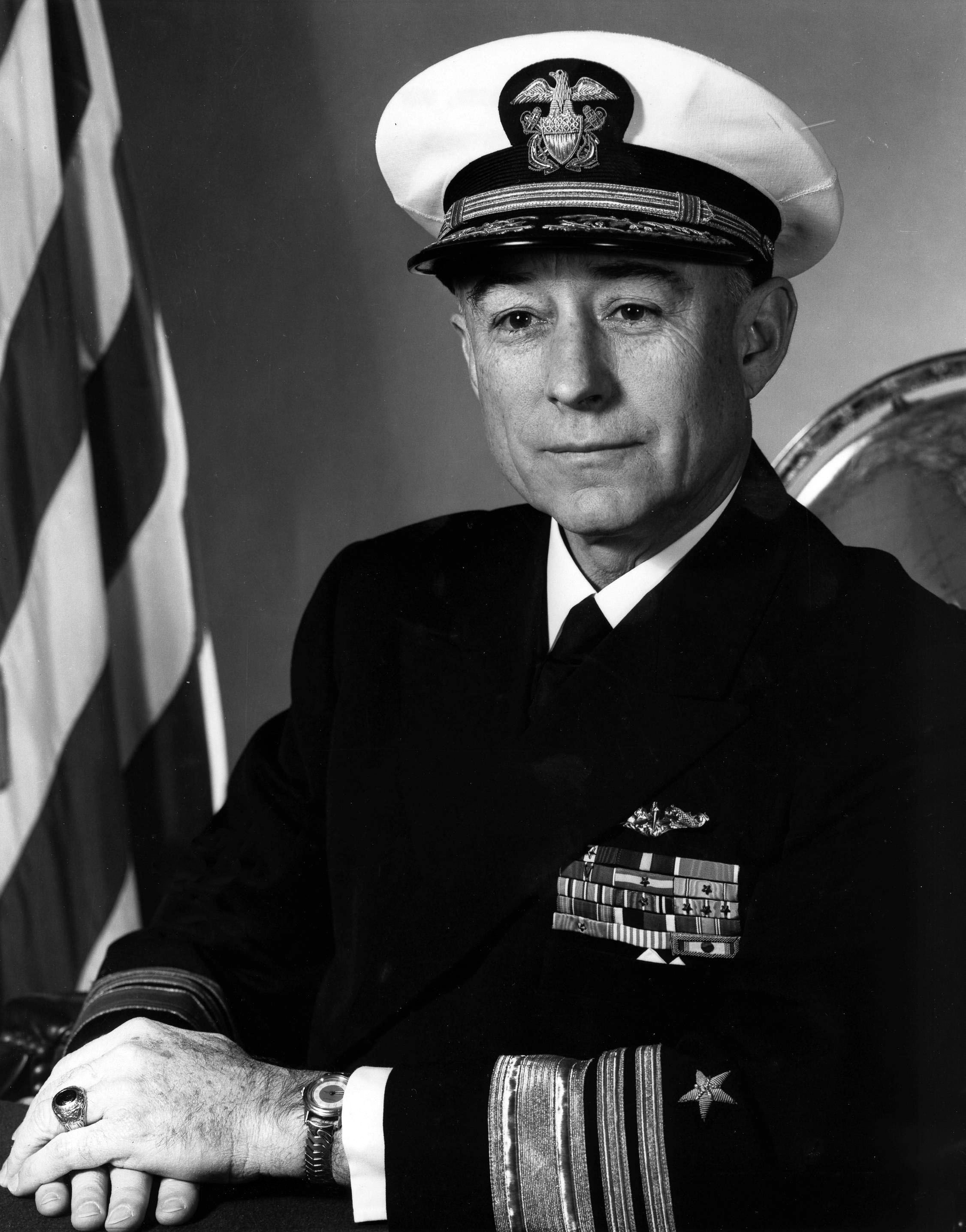 United States Navy Vice Admiral Bernard L. Austin